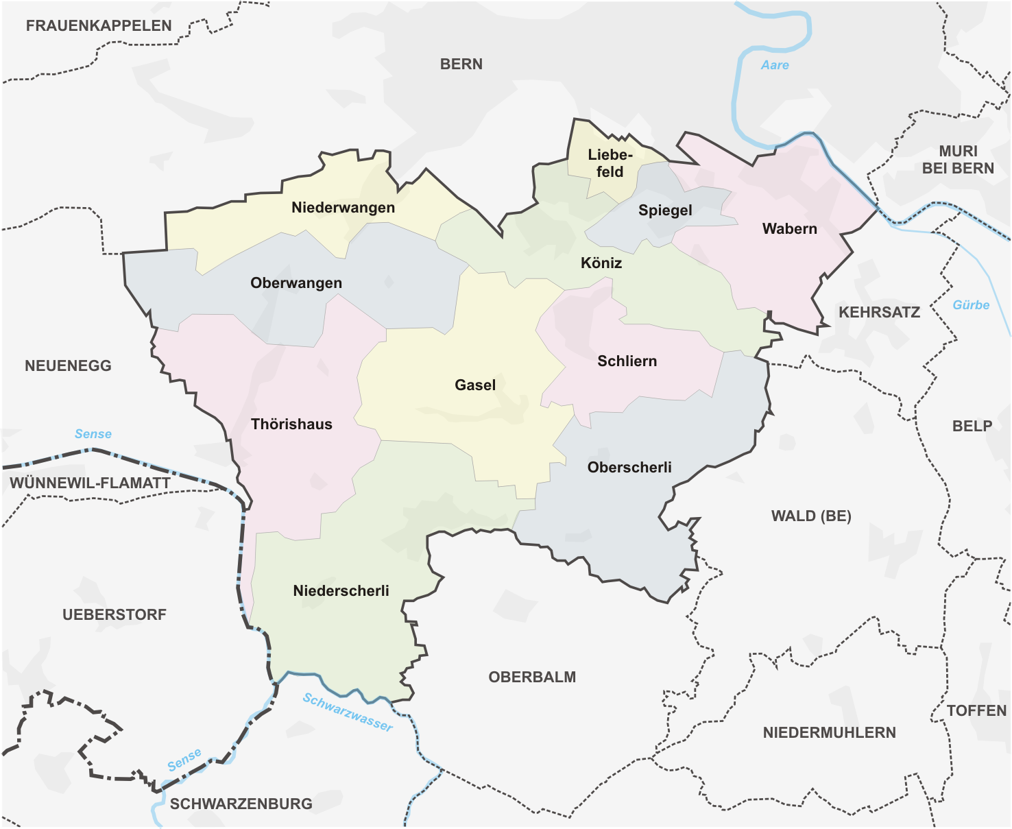 Quarters of Köniz